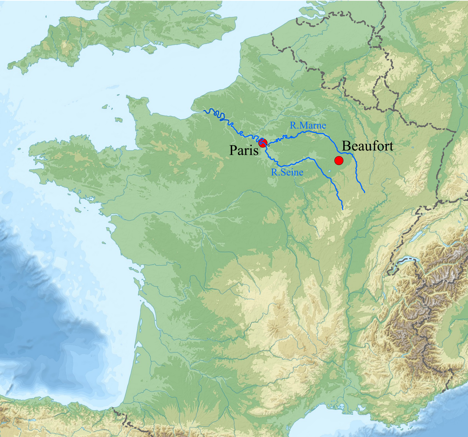 Map showing location of Montmorency-Beaufort in the Champagne region of France, 100 miles east of Paris & 25 miles north-east of Troyes. The manor and castle of Beaufort (which after 1688 added the prefix Montmorency after its then owner) was the birthplace of John Beaufort, 1st Earl of Somerset (1371-1410), eldest illegitimate son of John of Gaunt (1340-1399) (third surviving son of King Edward III) by his mistress (later wife) Katherine Swynford. He was the founder of the House of Beaufort, subsequently legitimised. The Portcullis heraldic badge of the Beauforts, now the emblem of the House of Commons, is believed to have been based on that of the castle of Beaufort, now demolished. (Source: Willement, Thomas, Heraldic Notices of Canterbury Cathedral; with Genealogical and Topographical Notes, London, 1827, p.3, note (e).[1])